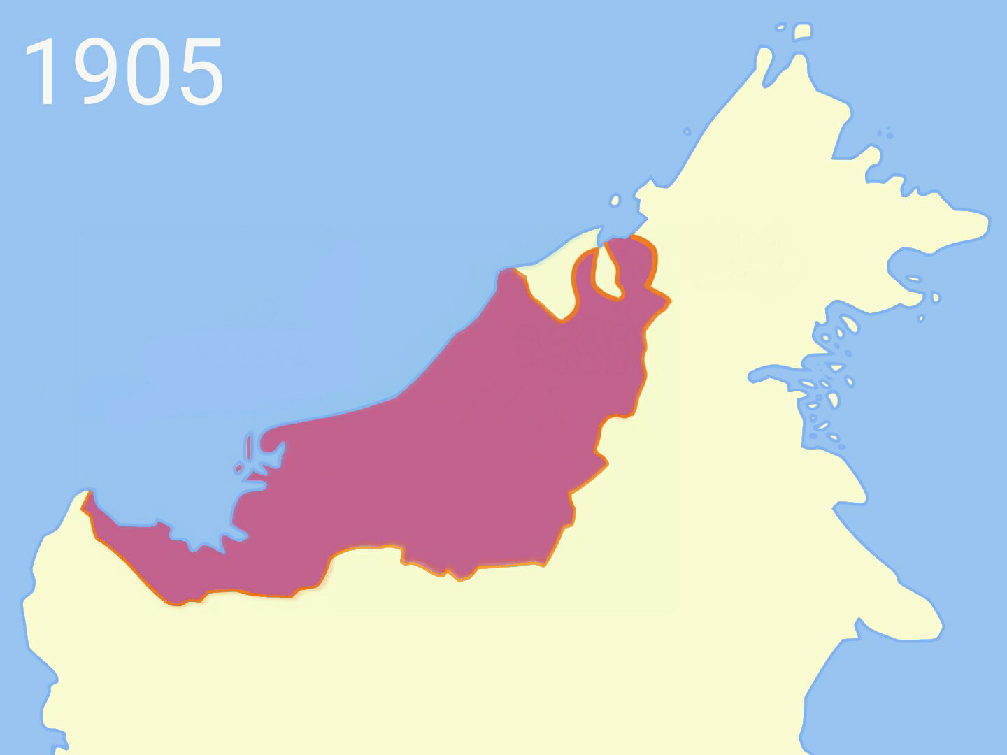 Territory acquired by Charles Brooke from the Sultanate of Brunei for the Kingdom of Sarawak in 1905.